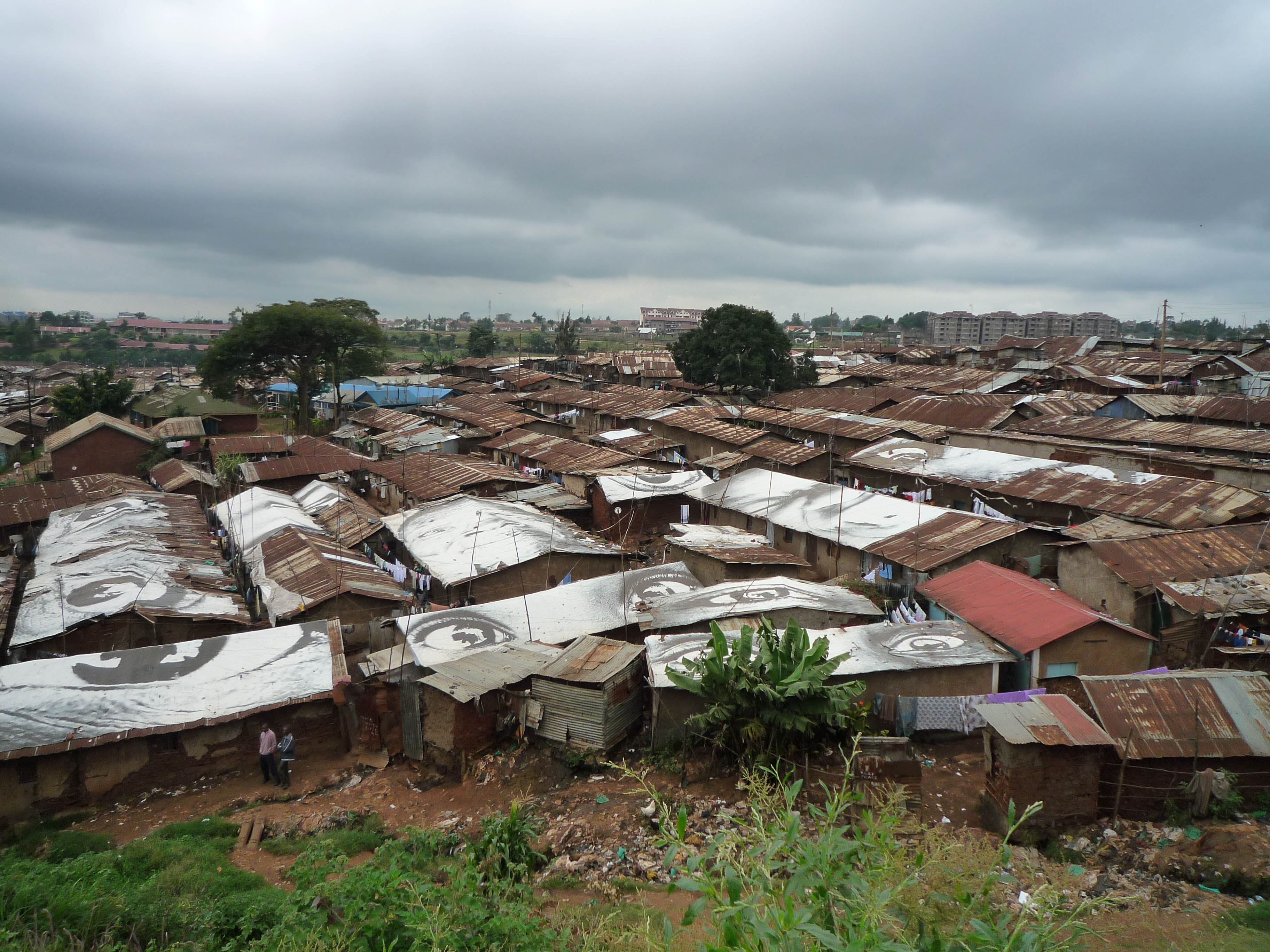 This a photo of a slum in Kibera, Kenya